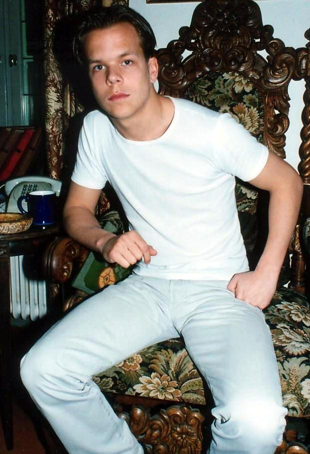 Swedish actor Daniel Larsson, as released by image creator Lars Jacob ProdPlace: Stahe Freight, Skeppsbron 24, Stockholm, Sweden